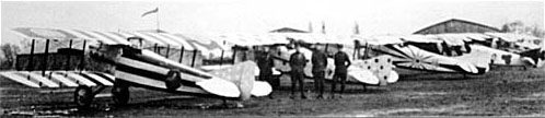 After the 94th Aero Squadron arrived at Koblenz, it painted its SPAD XIIIs in extremely gaudy colors in preparation for flying them to Paris for the French-sponsored pennant presentation ceremony on March 12, 1919. The pilots flew as far as Toul before inclement weather grounded them; they had to complete their trip to Paris by train.